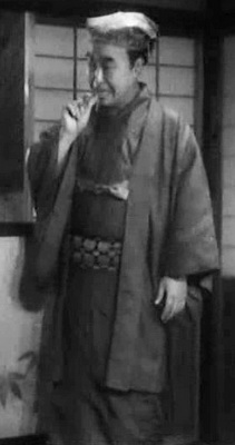 Screenshot from The Life of Oharu, 1952 film.